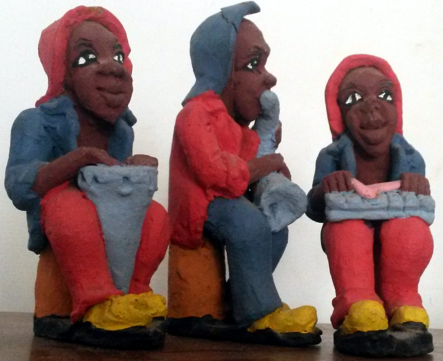 This is an image with the theme "Play" from: Zimbabwe